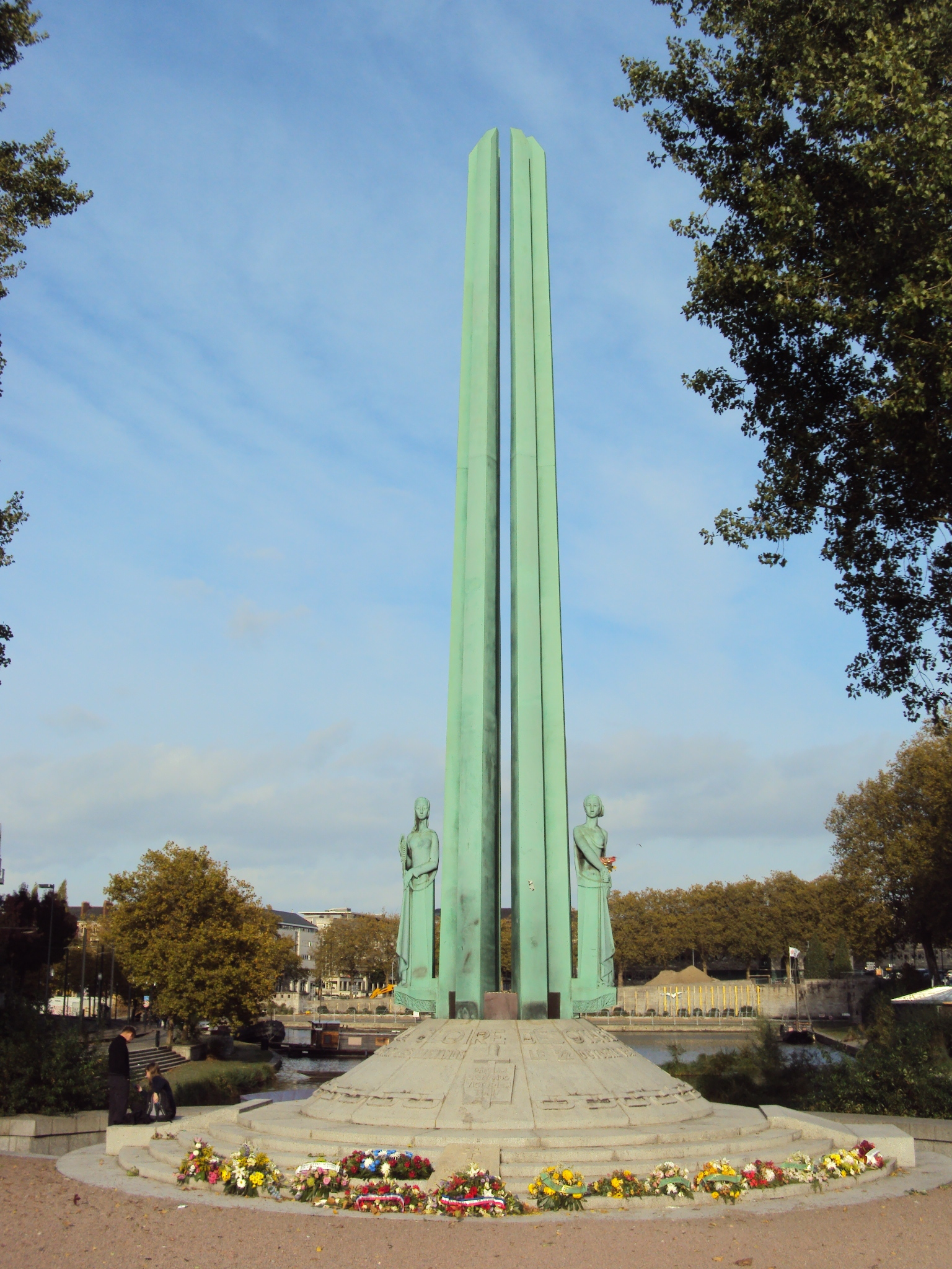 Monument aux Cinquante Otages, Nantes